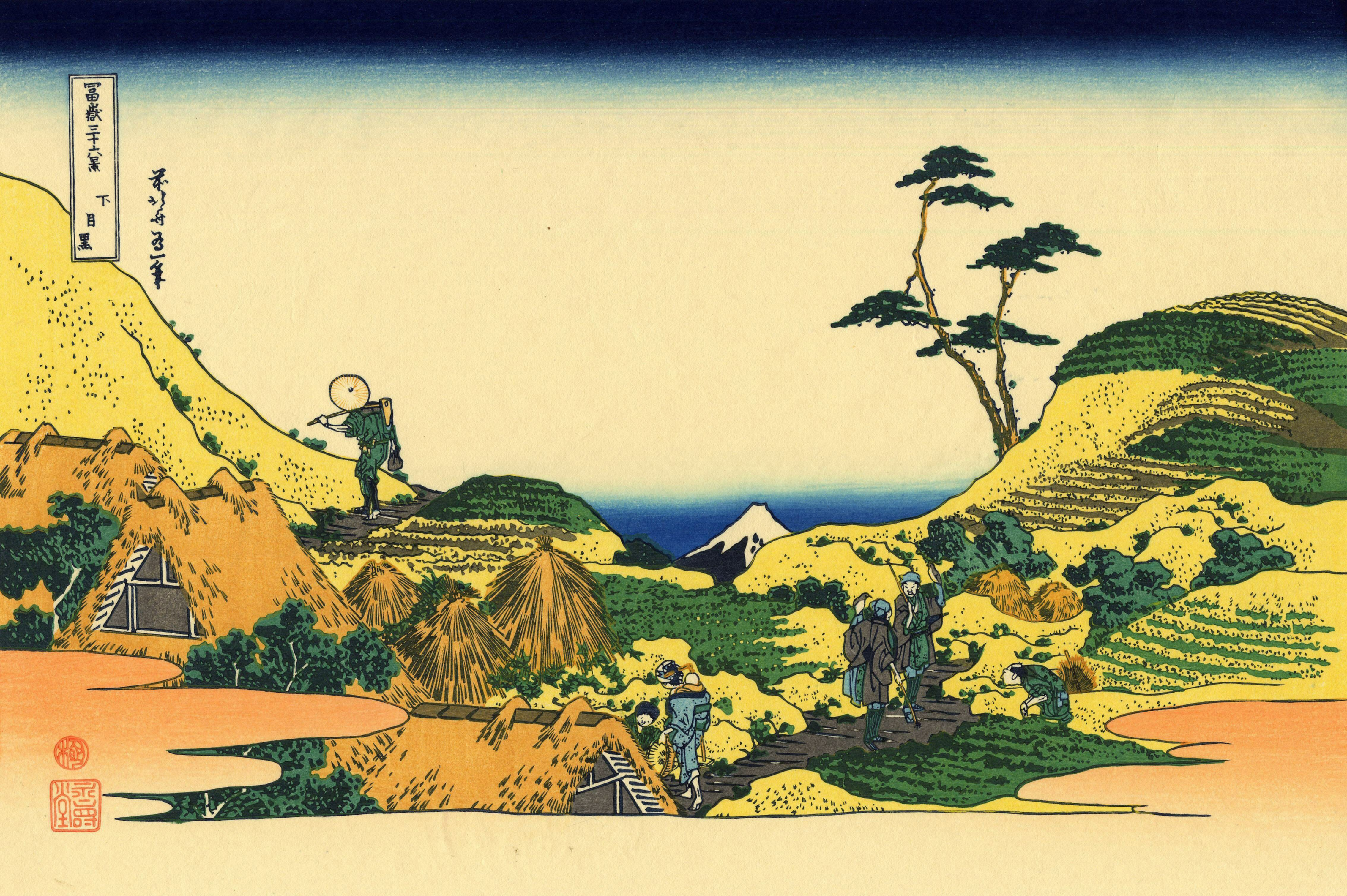 Part of the series Thirty-six Views of Mount Fuji, no. 10.